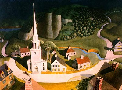 The midnight ride of Paul Revere